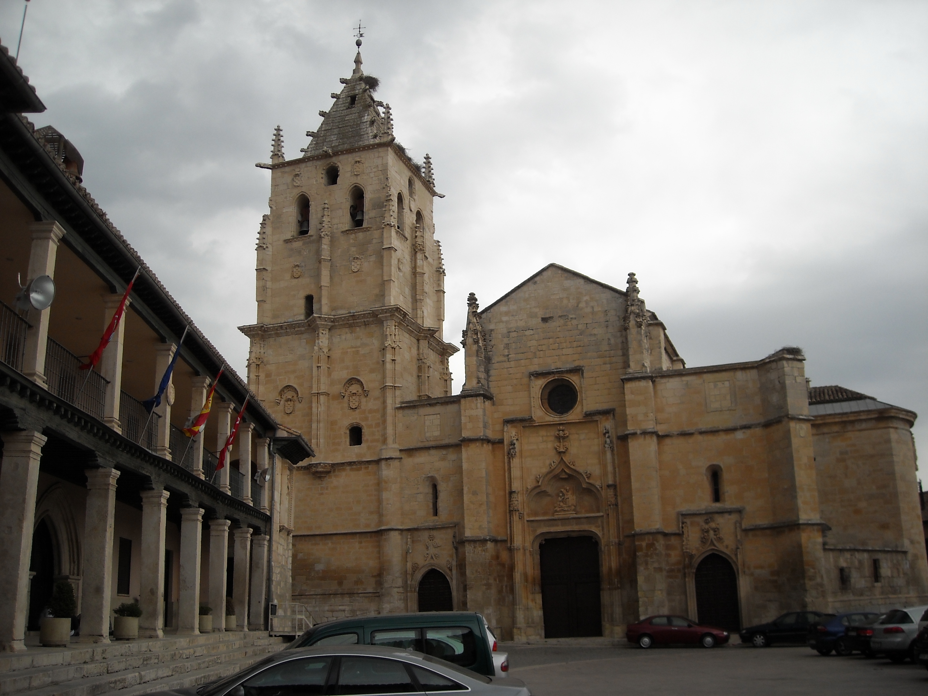 Church of St. Mary Magdalene, Torrelaguna, Madrid, Spain